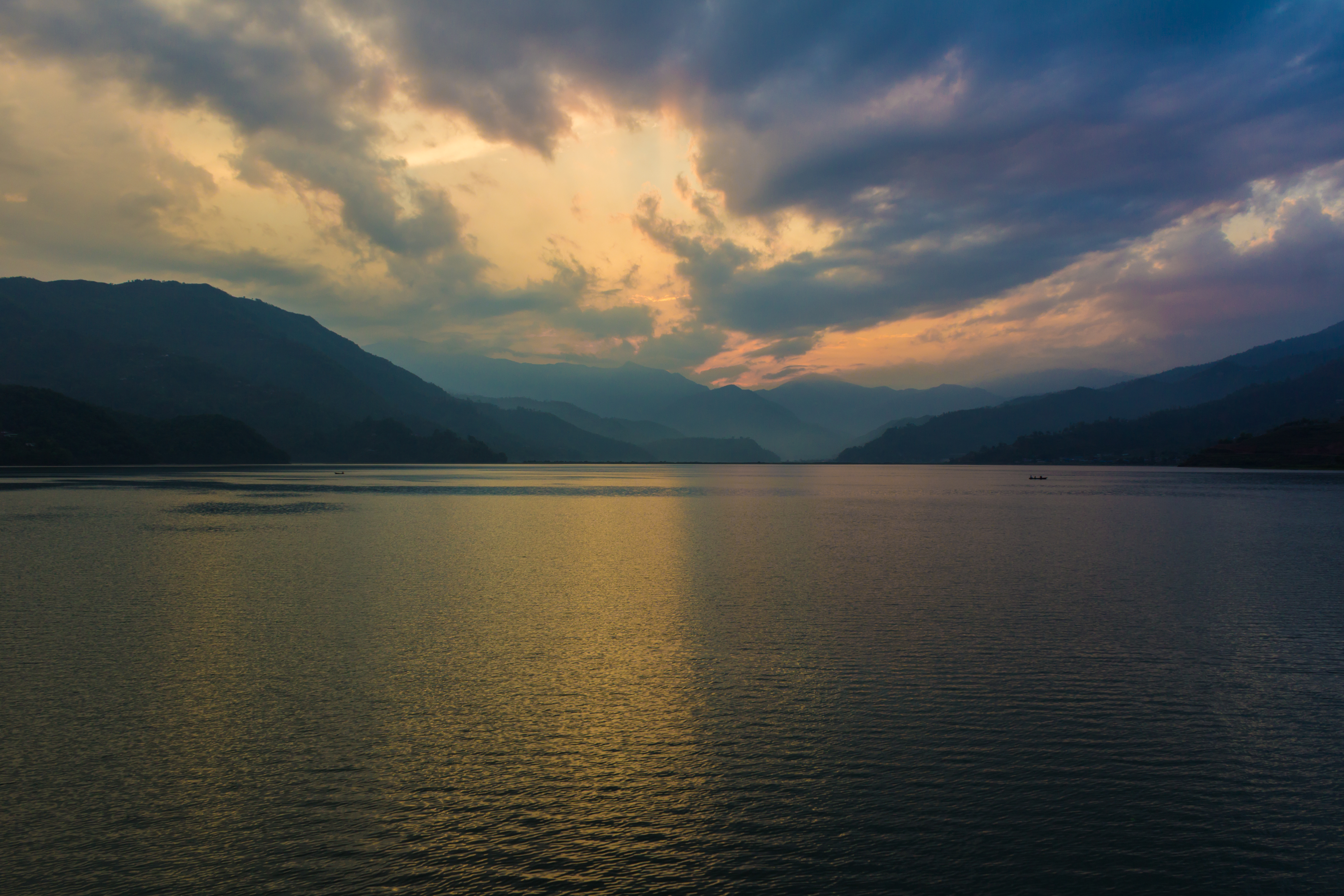 Sunset view of Phewa lake नेपाली: सूर्यास्तको समय फेवा ताल